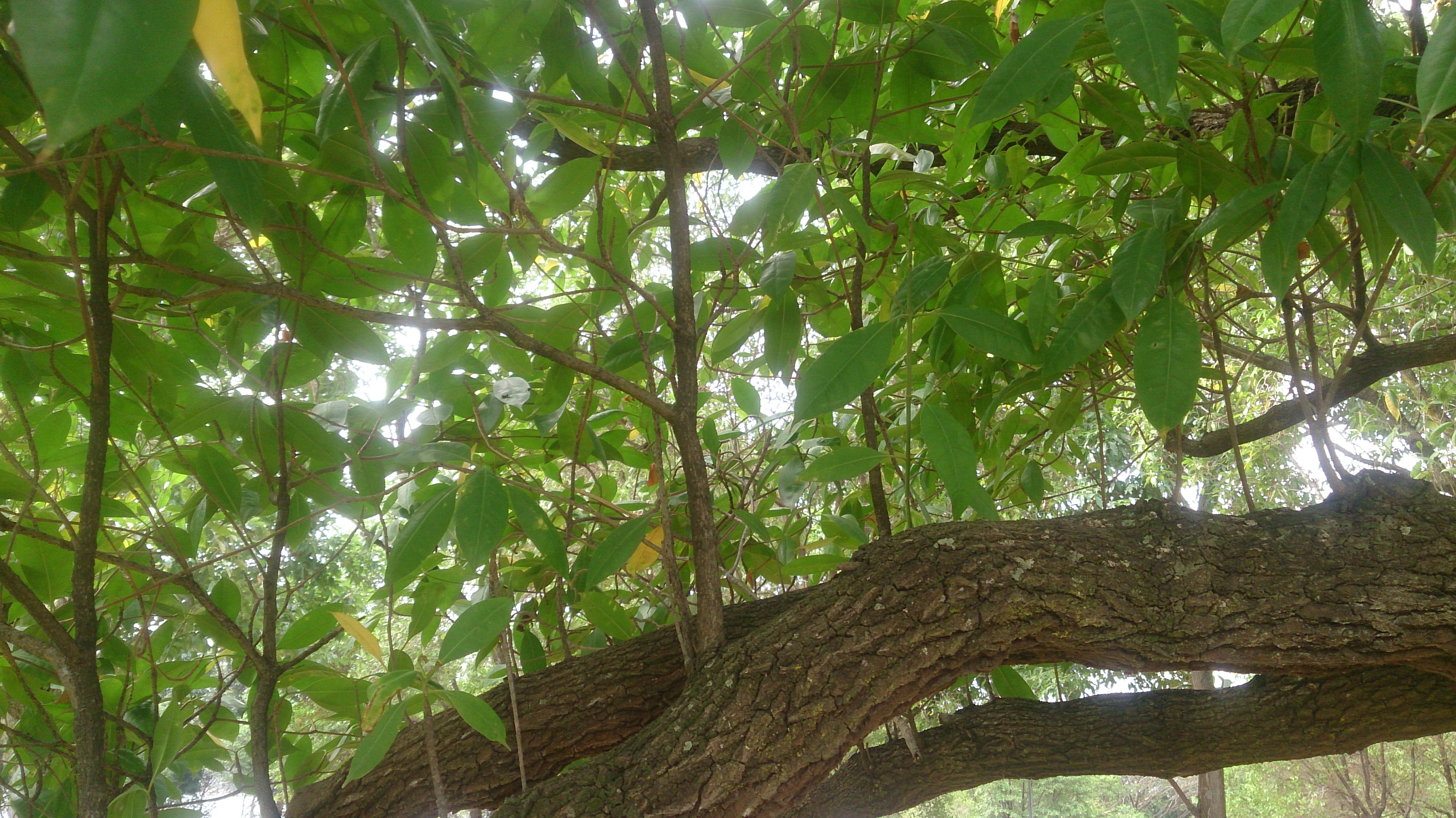 Tembusu tree at Bedok Reservoir, Singapore